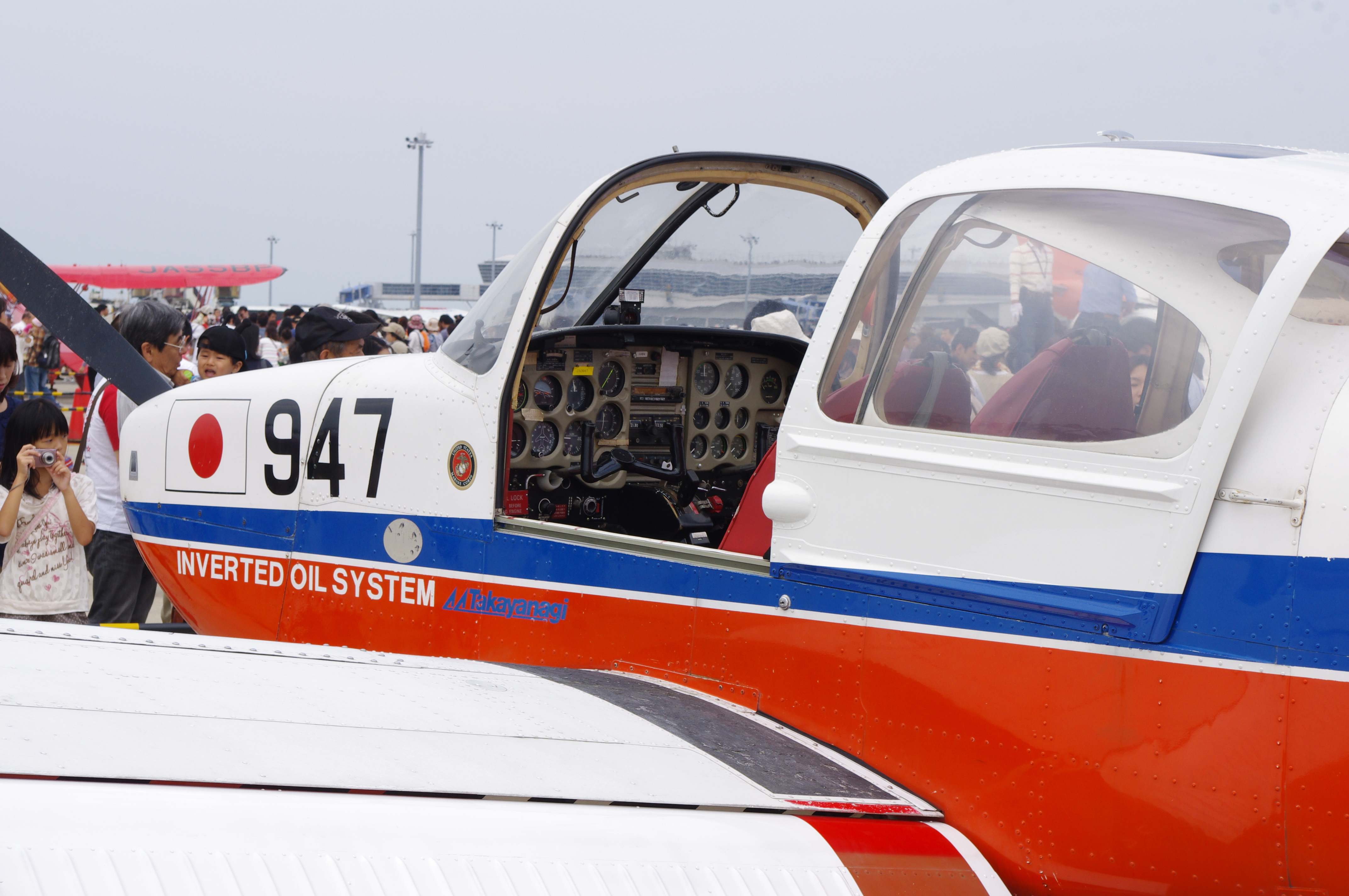 Taken at Centrair on 14 Oct 2012.